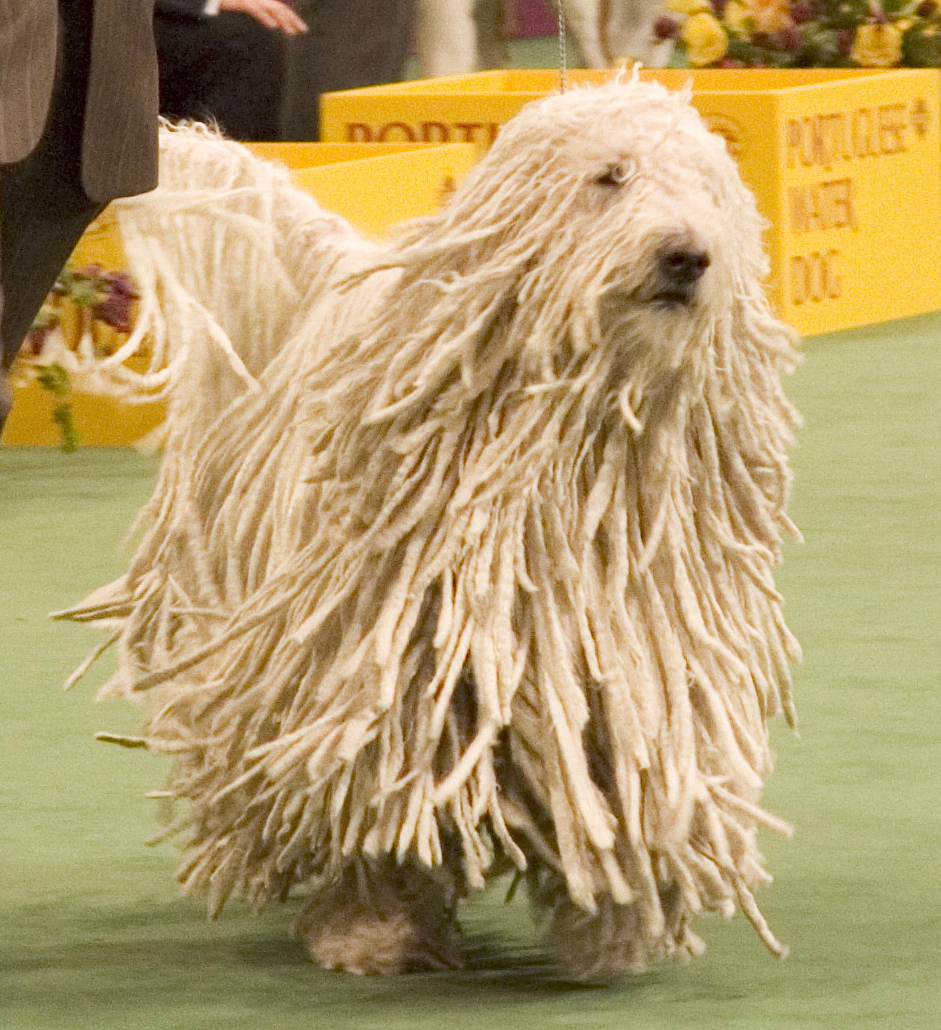 Ch. Gillian's Quintessential Quincy (born April 17, 2007), a male Komondor at the working group judging in the 2007 Westminster Kennel Club Dog Show.